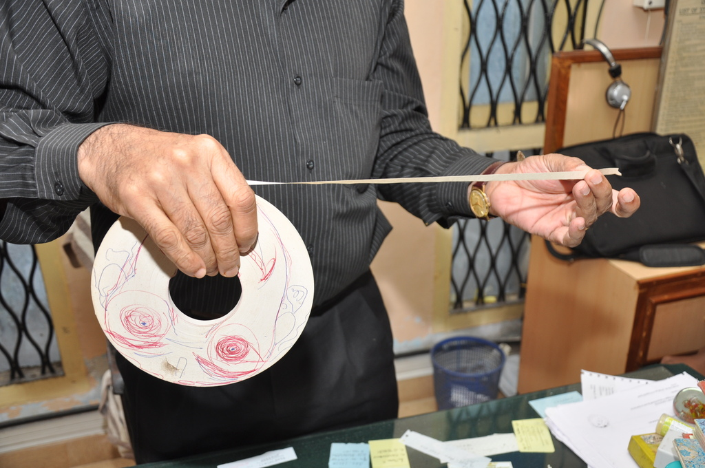 Paper strips used to type telegram messages in older days